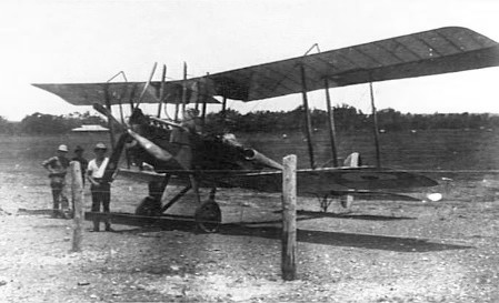 The first flight across Australia by Capt. H N Wrigley and Sgt. A W Murphy is virtually unsung but it proved that air travel in the Australian outback was a viable form of transport. Shown is the B.E.2E aircraft (No. B6183) at a bush airstrip.